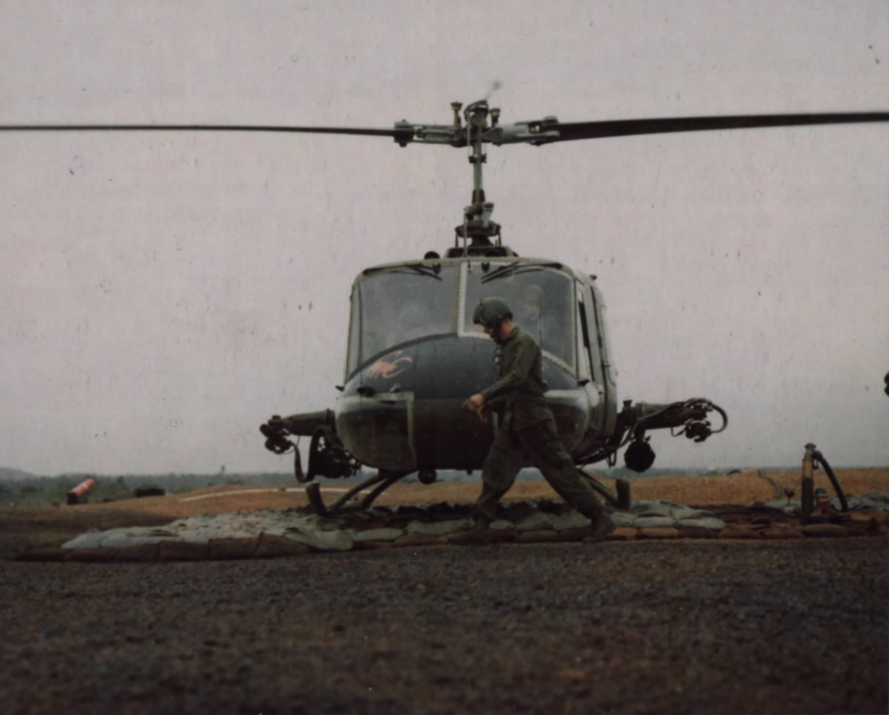 A UH-1B helicopter, equipped with miniguns and two 2.75 in. rocket pods, of Troop "A", 1st Recon Squadron, 9th Cavalry Regiment, 3rd Brigade, 1st Cavalry Division (Airmobile) takes on fuel prior to making a recon by fire mission against a suspected enemy position during Operation Pershing, a search and destroy mission conducted approximately 50 km northeast of An Khe in Binh Dinh Province.